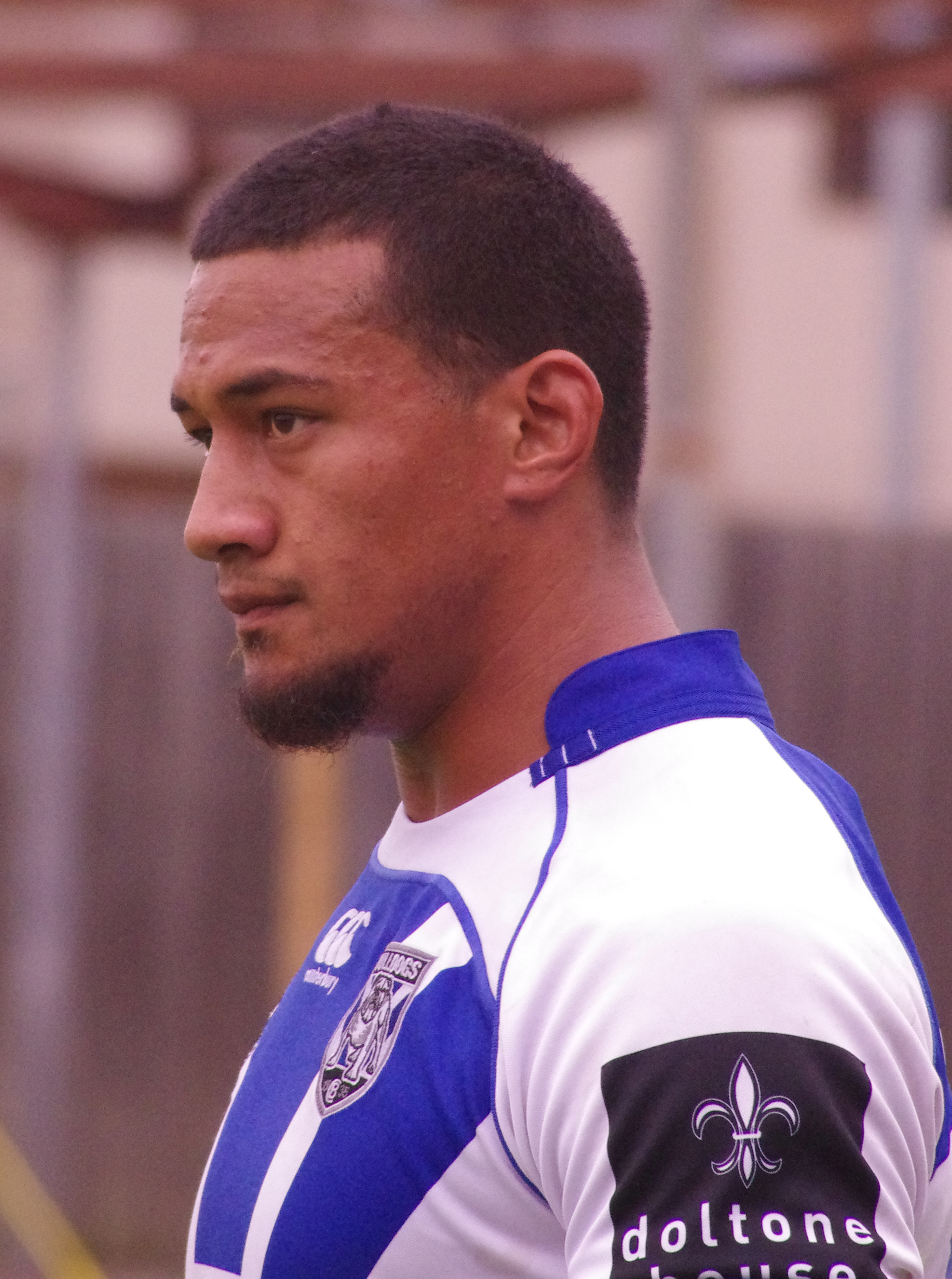 James Gavet